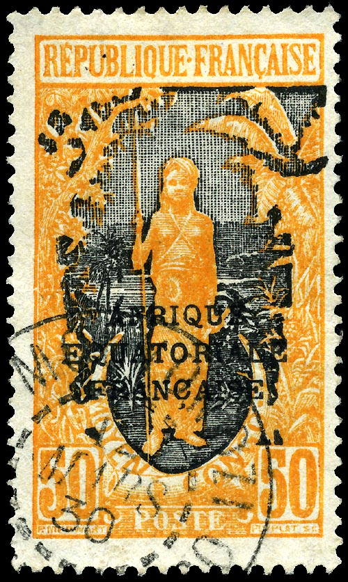 Middle Congo 50c overprint stamp of 1925